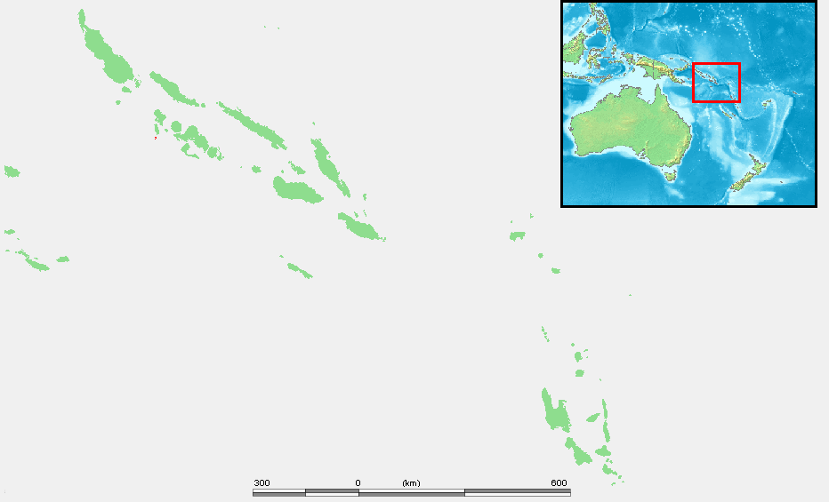 Island of Solomon Islands - Simbo.PNG